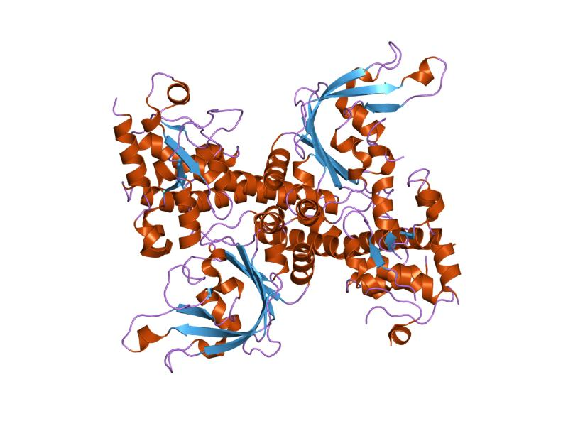 Cartoon representation of the molecular structure of protein registered with 1na6 code.